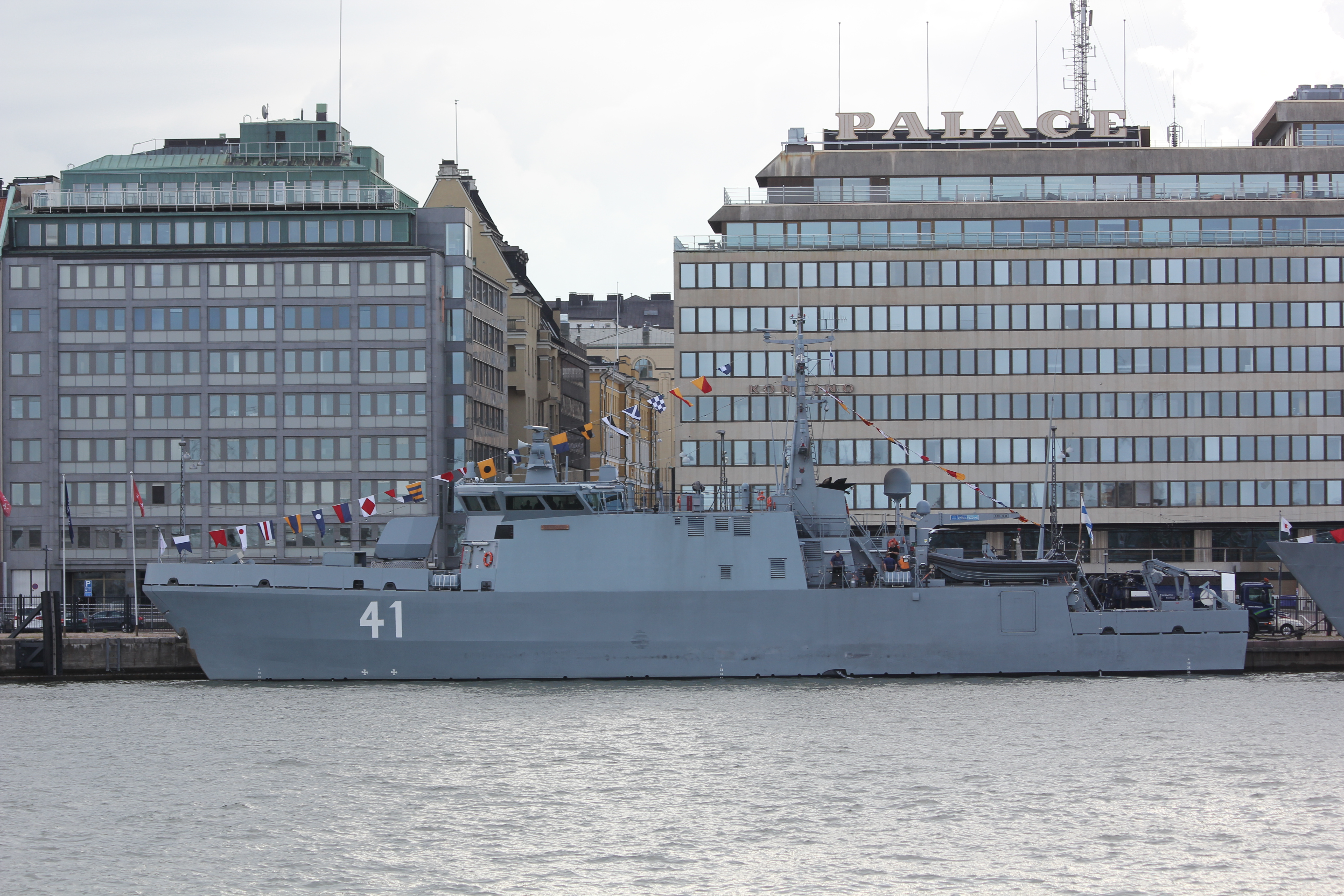 Mine countermeasure vessel Purunpää (41) in Helsinki South harbour during Finnish Navy 2015 anniversary.